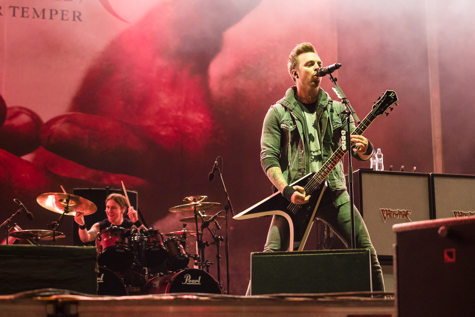 Matthew "Matt" Tuck amd Michael "Moose" Thomas of Bullet for My Valentine band. Ursynalia 2013 Warsaw Student Festival, Poland. This photo was taken with Sony SLT-A77 camera, thanks to cooperation with Sony Poland.You can see all photographs in category Taken with Sony SLT-A77. English | polski | +/−